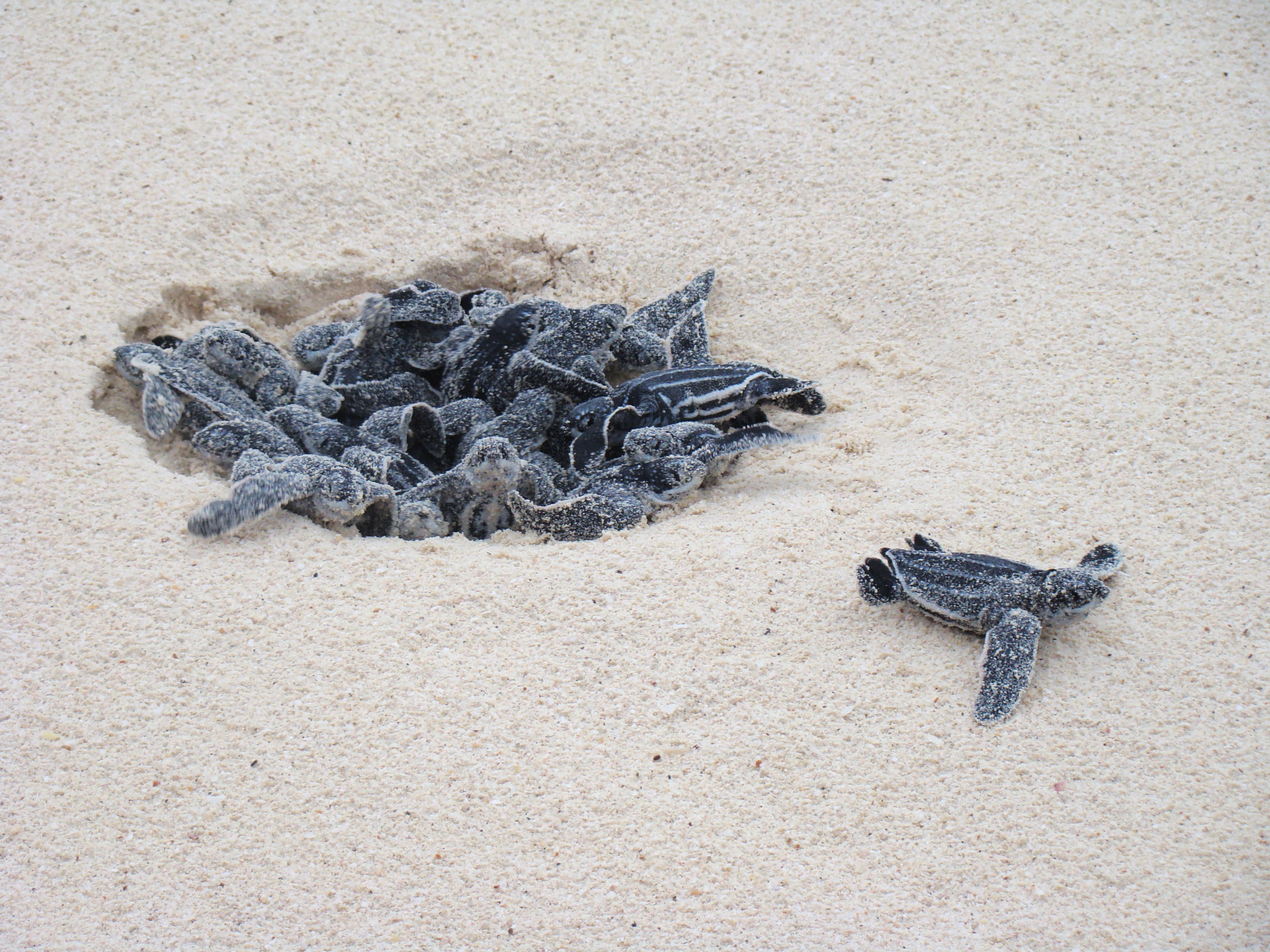 Leatherback Turtle Dermochelys coriacea juveniles leaving their nest at Eagle Beach, Aruba